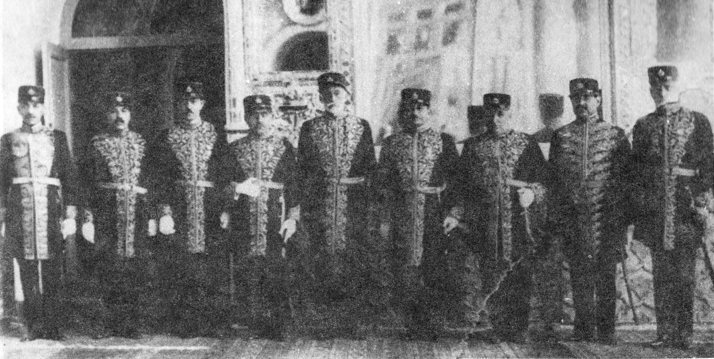 Cabinet Prime Minister Hedayat (from left: Mohammad Ali Farzin (vice foreign), Ghasem Souresrafil (PTT), Ali-Akbar Davar (Justice) Firuz Firuz (Finance), Mehdi Gholi Hedayat (PM), Javar Gholi Asad (Defence), Adib-Al-Saltaneh Samii (Interior), Mahmood Jam (Social), Yahyah Gharehghozlu (Education)